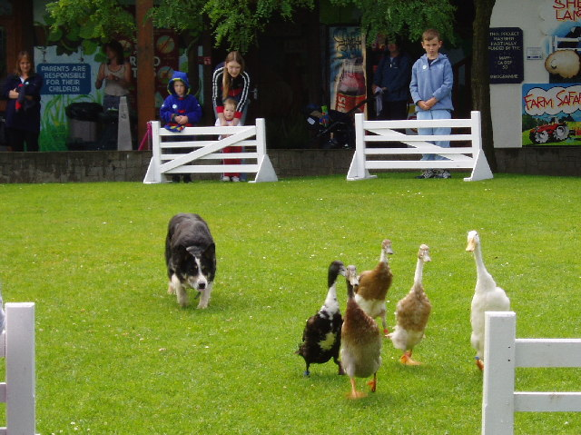 Duck trials at the Big Sheep, Abbotsham near Bideford. One man and his dog (with ducks)